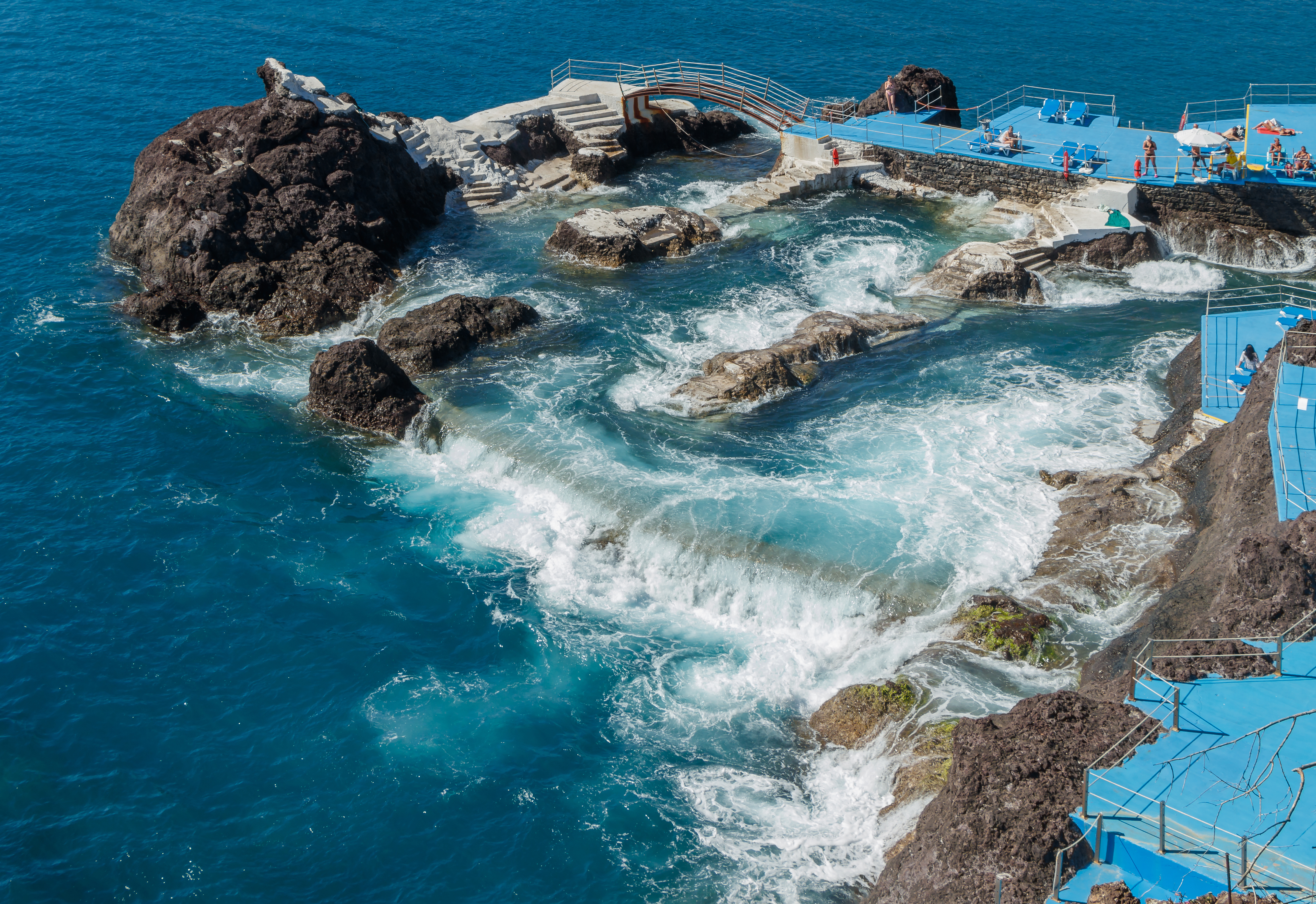 Doca do Cavacas, Funchal, Madeira, Portugal.